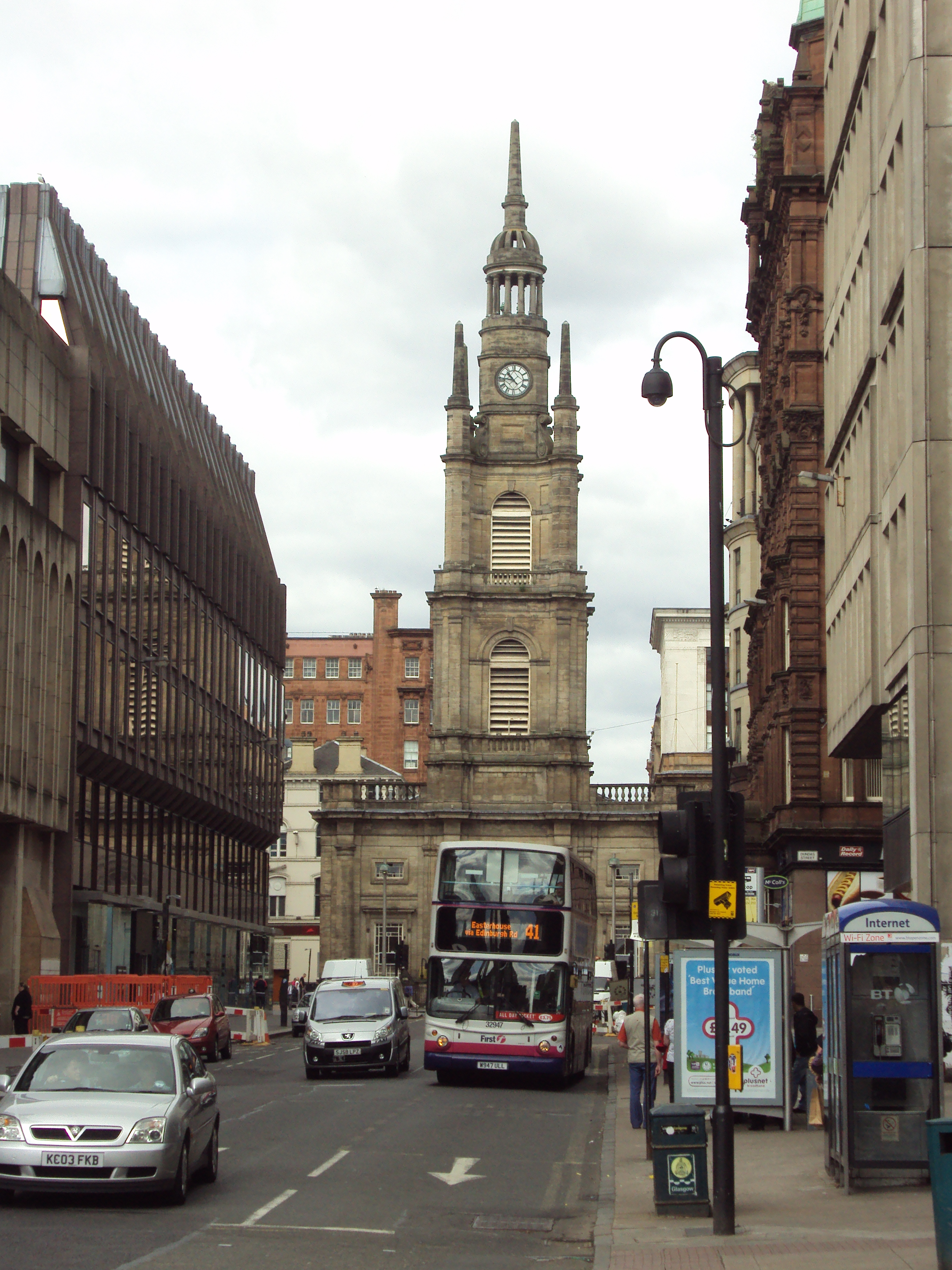 West George Street, Glasgow, Scotland.